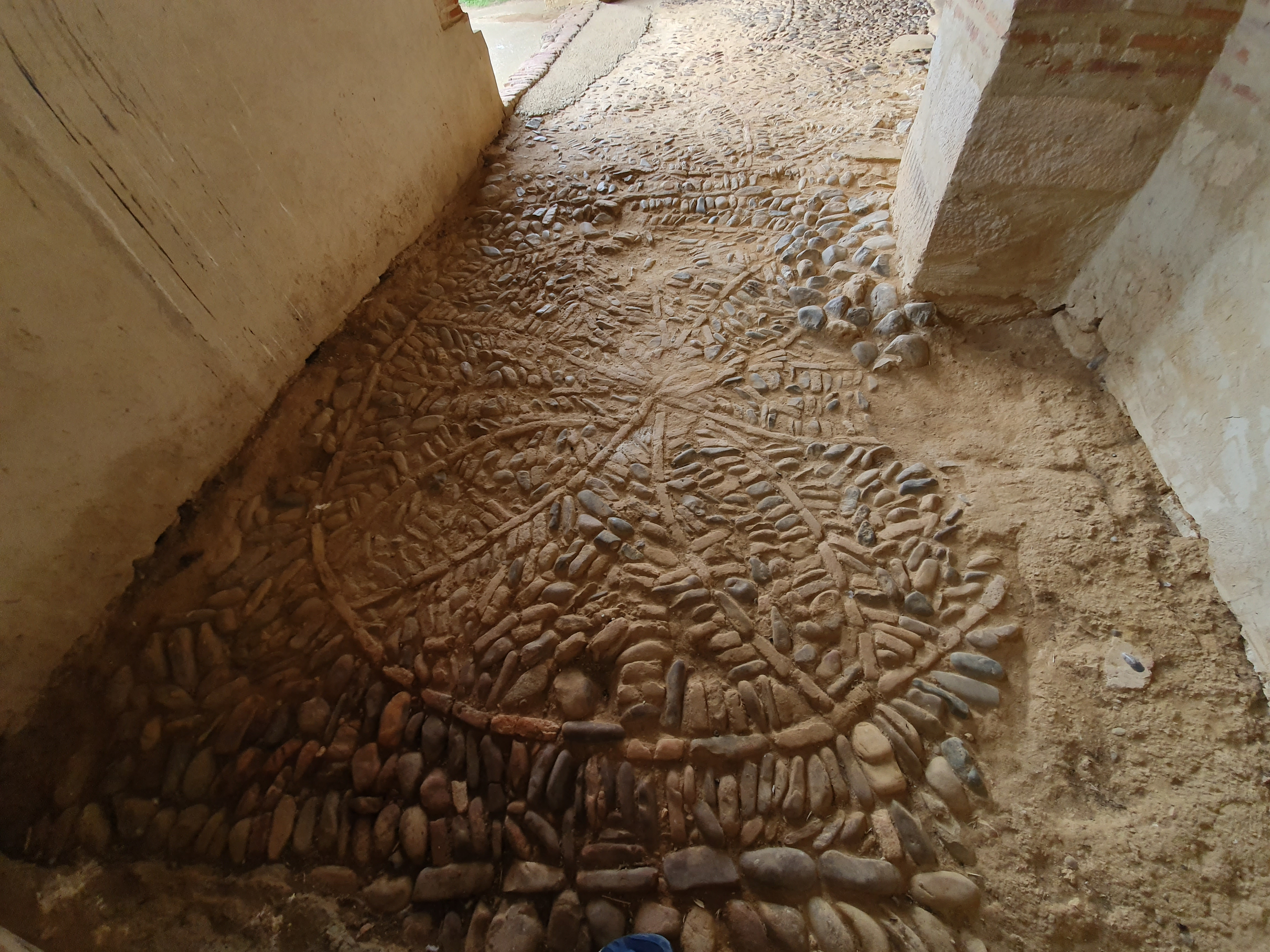 View of the cobbled floor in the portico of the Church of Nuestra Señora de la Asunción in Villamelendro. After the remodelling in 2012 where the liturgical store is amortised, the rest of the paving that was already seen in front of the door appears.